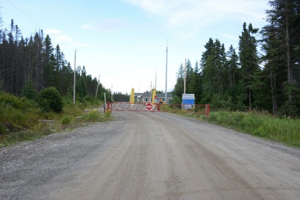 The US Border Inspection Station at St. Juste, Maine